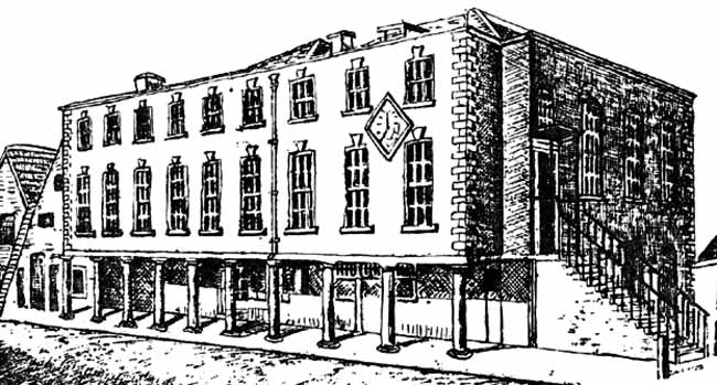 Nottingham Guild Hall in 1780